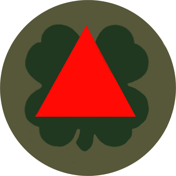 Representation of the United States Army XIII Corps insignia. Made with Photoshop.